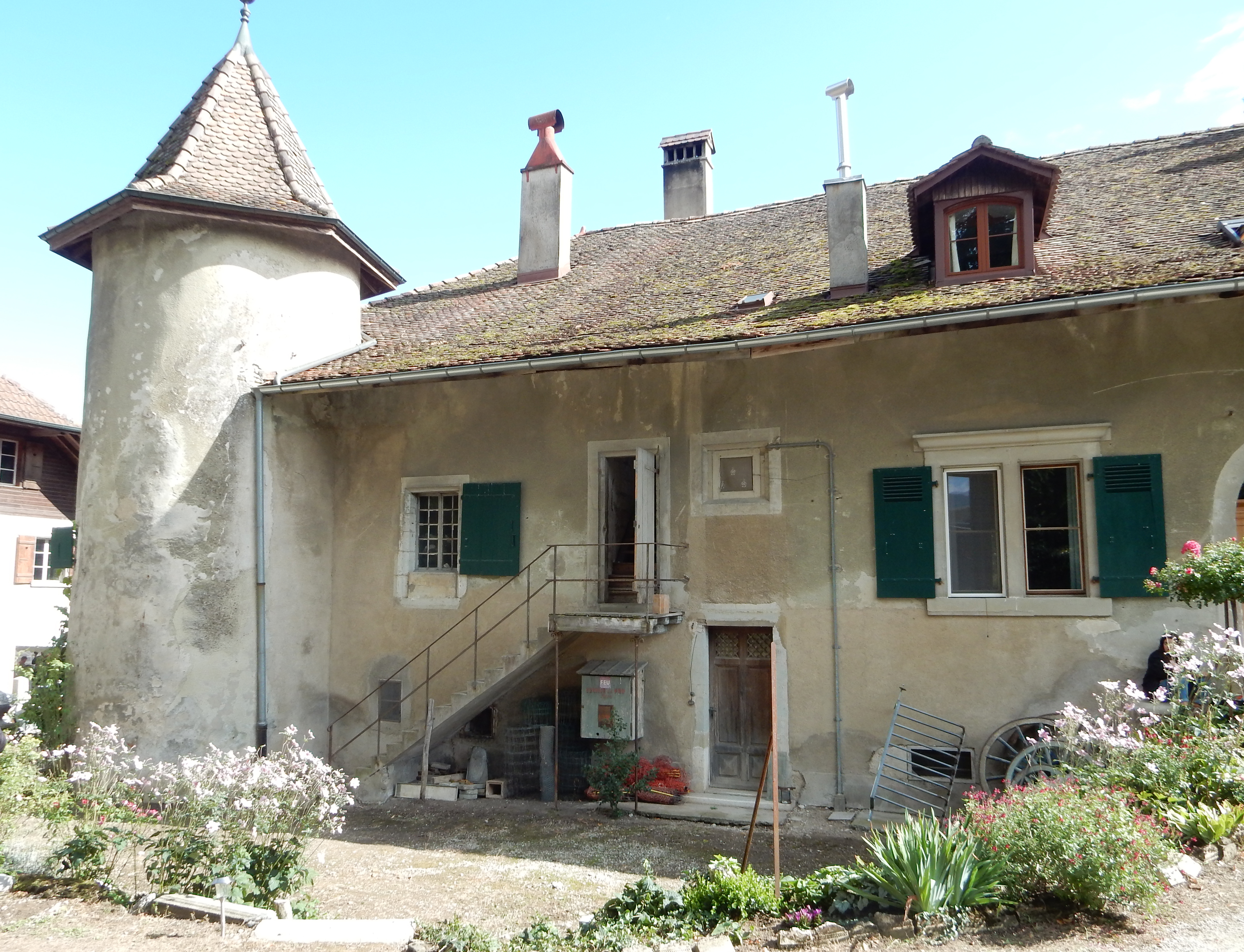 Nyon, Bois-Bougy, west side